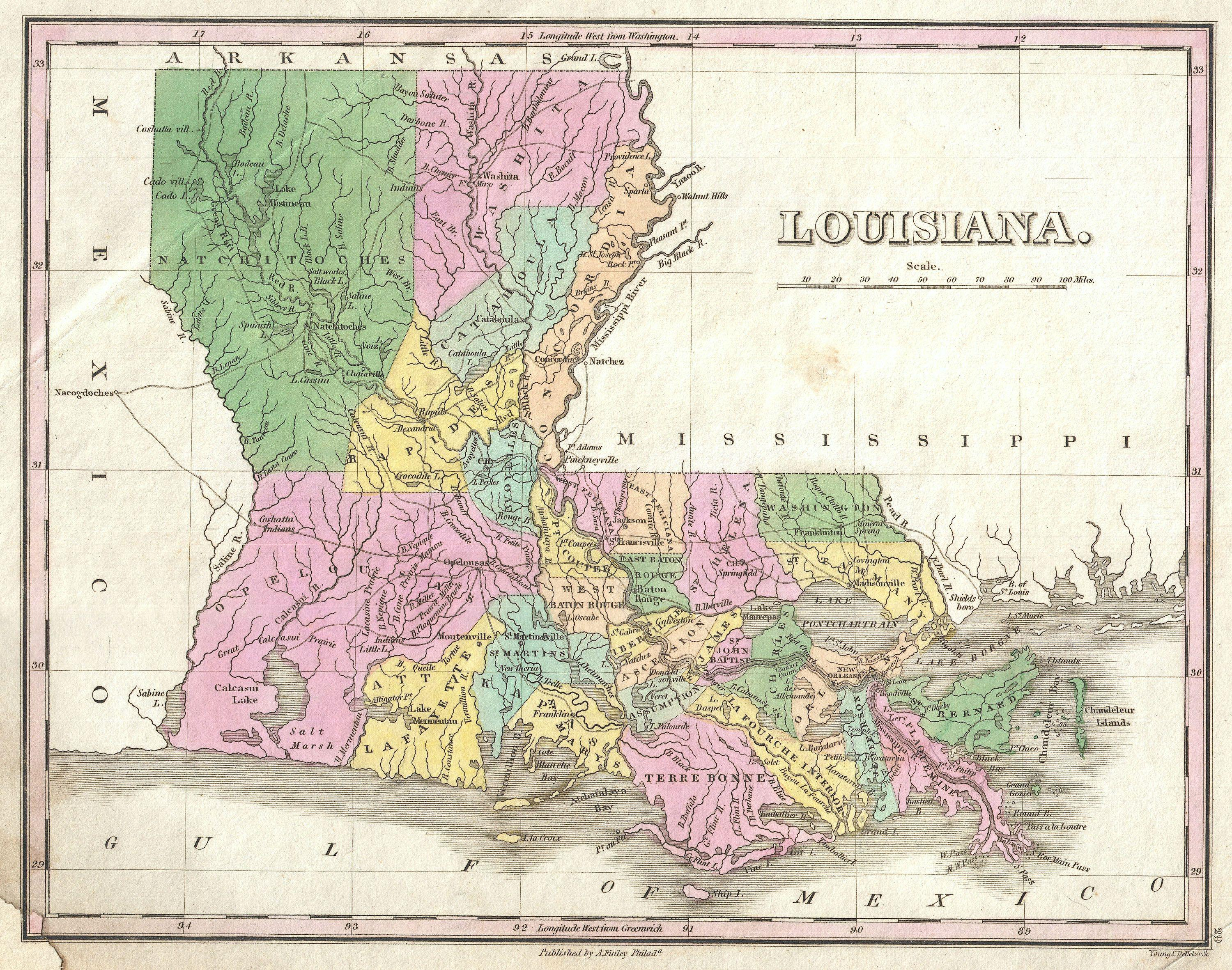 A beautiful example of Finley's important 1827 map of Louisiana. Shows early county configuration. Depicts the state with moderate detail in Finley's classic minimalist style. Shows river ways, roads, canals, and some topographical features. Offers color coding at the county level. Various American Indian villages noted throughout the state but particularly in the western part. Southwest Pass, in the Mississippi River Delta, is mislabeled Northwest Pass. Identifies Natchitoches, Louisiana, and its sister city Narogdoches, Texas. Title and scale in upper right quadrant. Engraved by Young and Delleker for the 1827 edition of Anthony Finley's General Atlas .